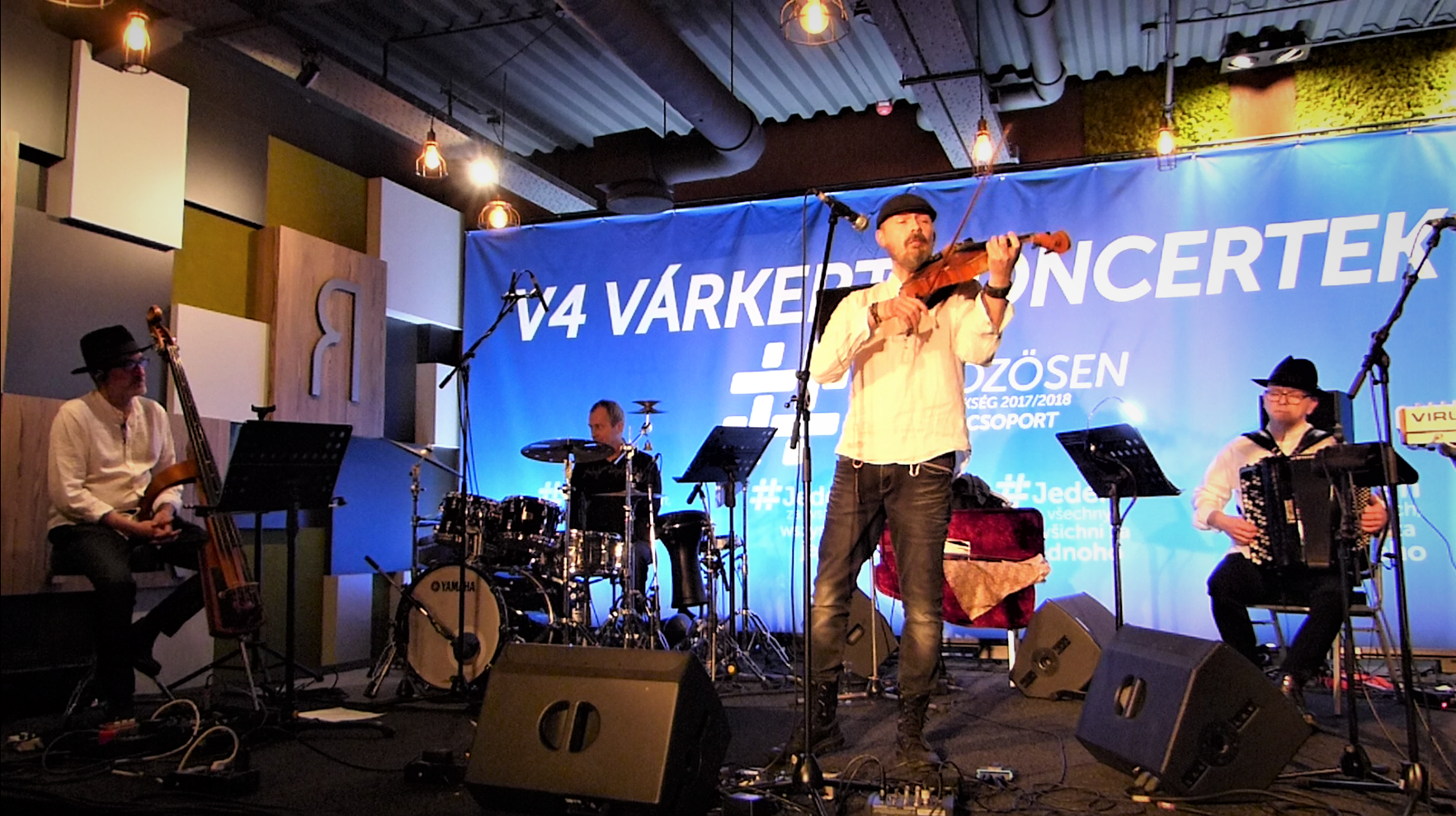 Anna Maria Jopek. Taken on the 8th of December, 2017. Várkert Bazár, Budapest, Hungary, Central Europe. Anna Maria Jopek and Kroko.